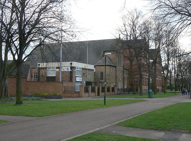 Queens Walk The three buildings are a St John Ambulance offices, the Pilgrim Church and the Queens Walk Community Centre (formerly a school)